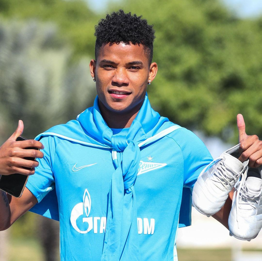 Wilmar Barrios during Gazprom Training Camp in Doha, Qatar. January 2020